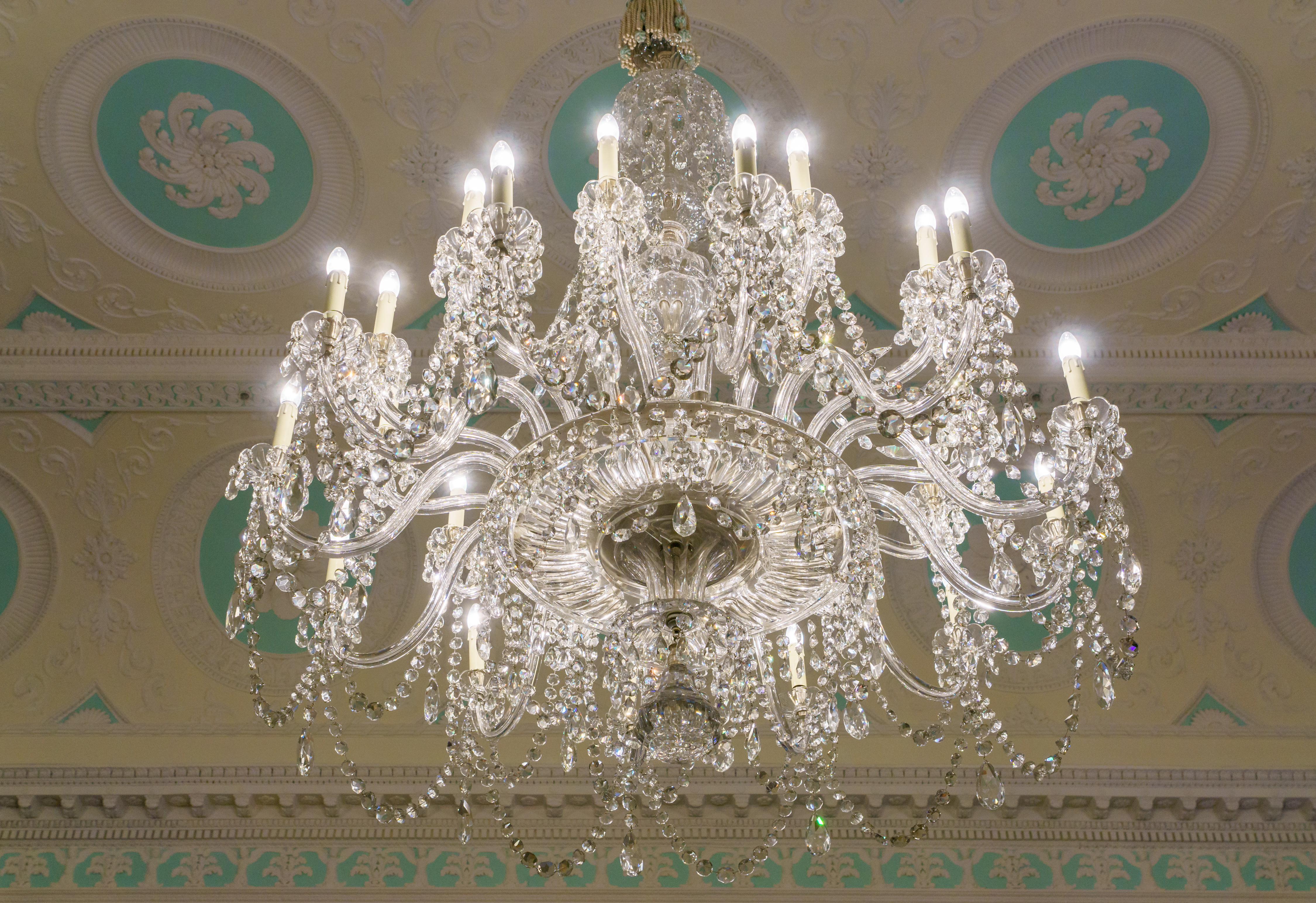 A chandelier in the Adam Room in the Lloyd's Building. Situated on the 11th floor, this committee room is an 18th-century dining room designed for the 2nd Earl of Shelburne by Robert Adam in 1763; it was transferred piece by piece from the previous (1958) Lloyd's building across the road at 51 Lime Street. Wikidata has entry Q17526935 with data related to this building.